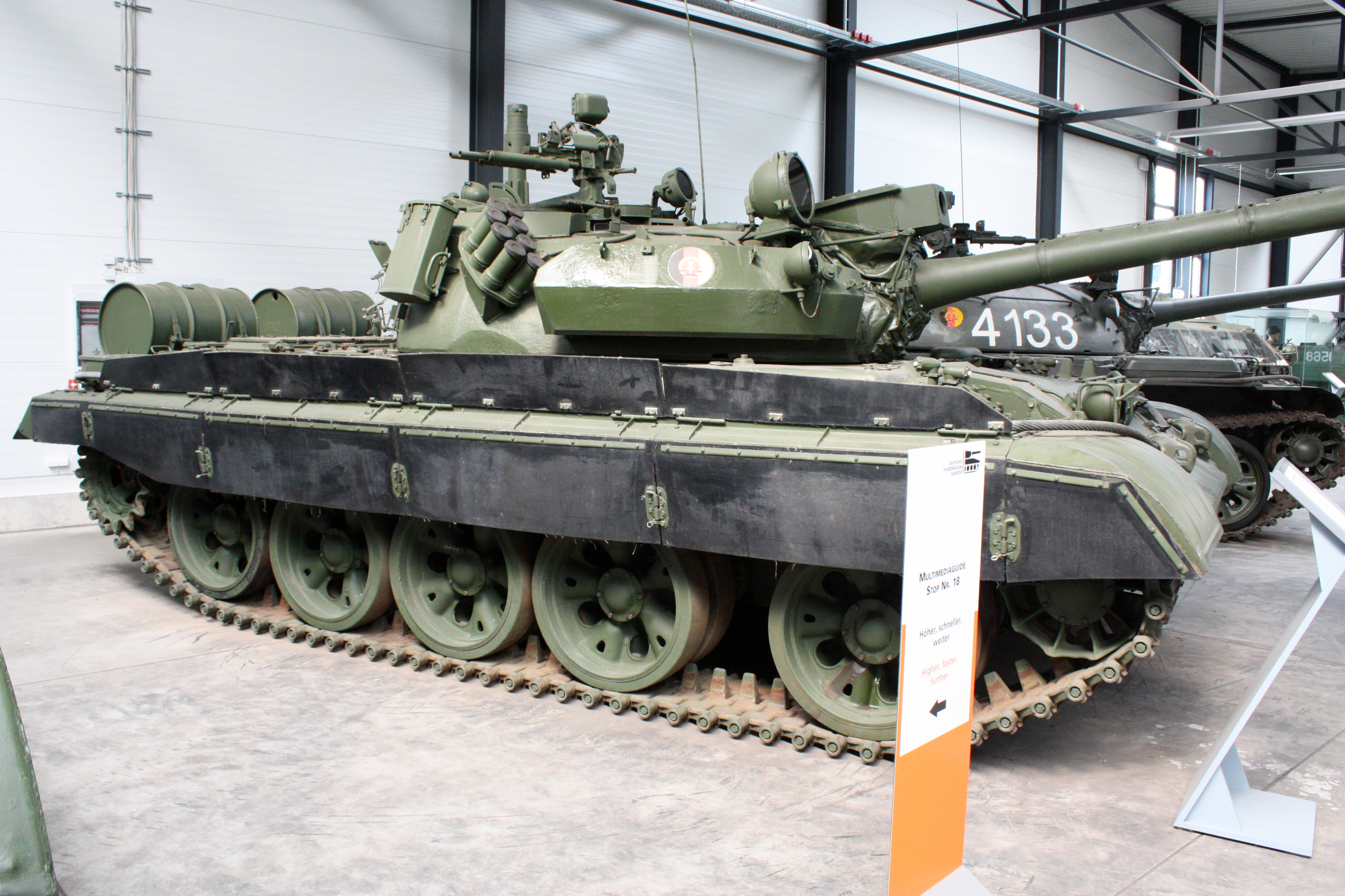 German Tank Museum